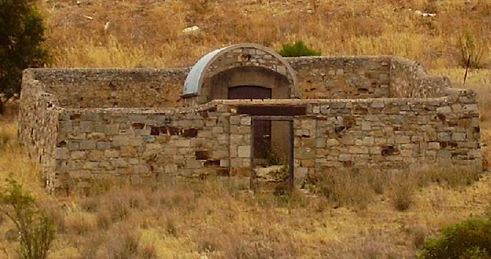 Photo of the powder magazine formerly of Yatala Labour Prison. Photo taken from the walking trail along dry creek, 2006. Self taken by User:Peripitus originally uploaded to wikipedia then re-uploaded here